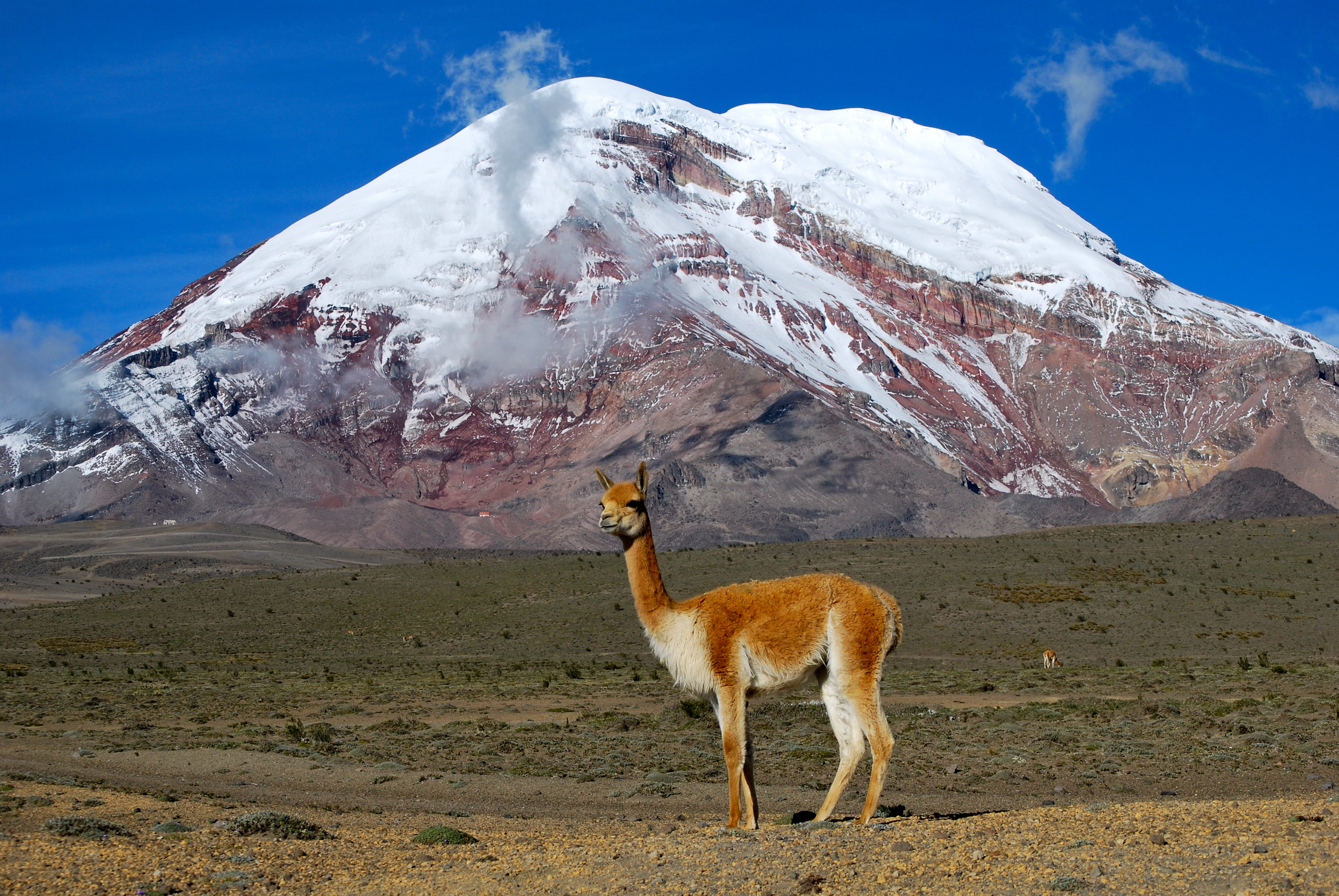 Vicuña, one of two wild South American camelids. In the background the point on the Earth's surface that is farthest from the Earth's center, Chimborazo volcano - Ecuador.